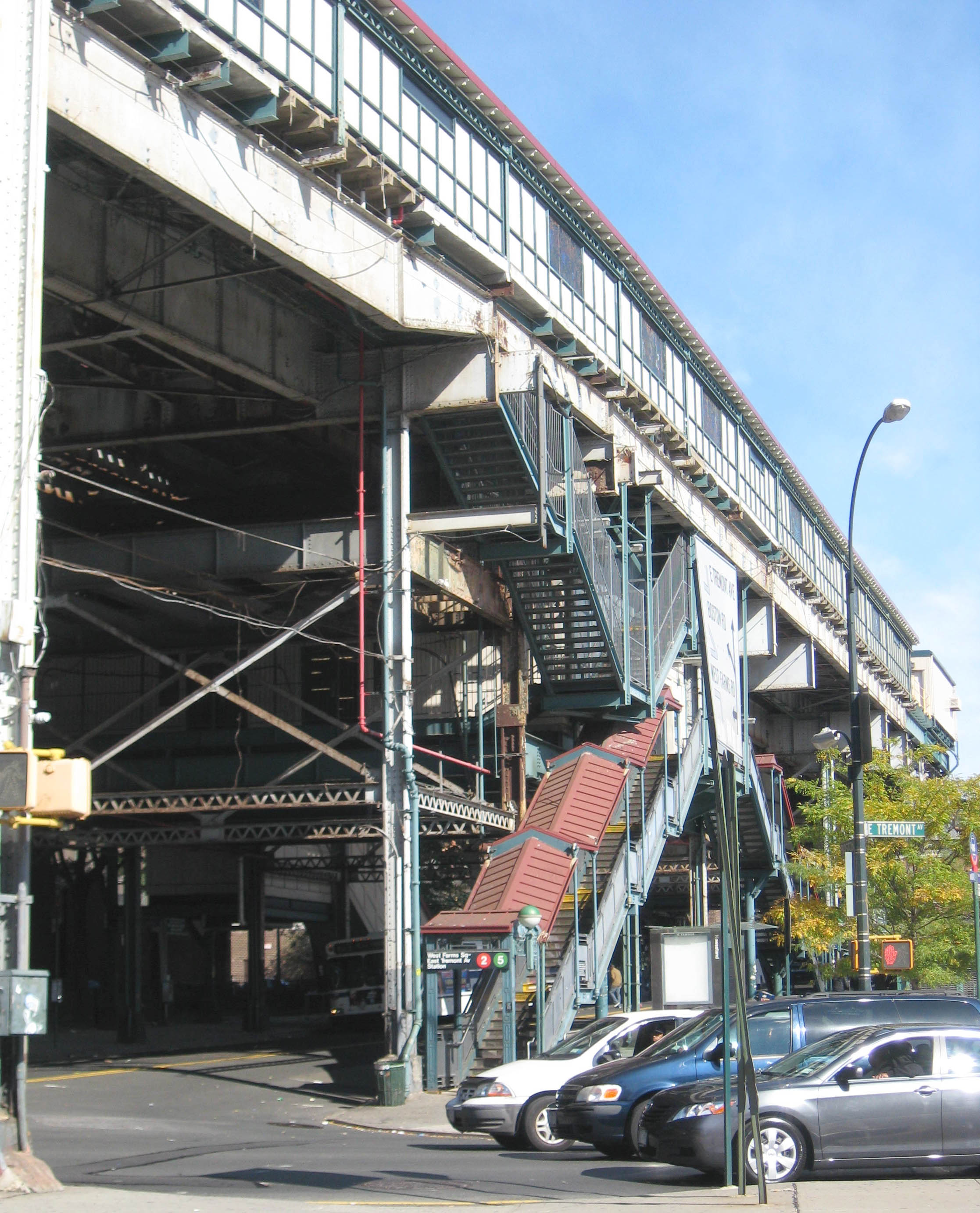 Looking north at eastern stair of West Farms Square–East Tremont Avenue (IRT White Plains Road Line) on a sunny late morning. ZIP 10460.